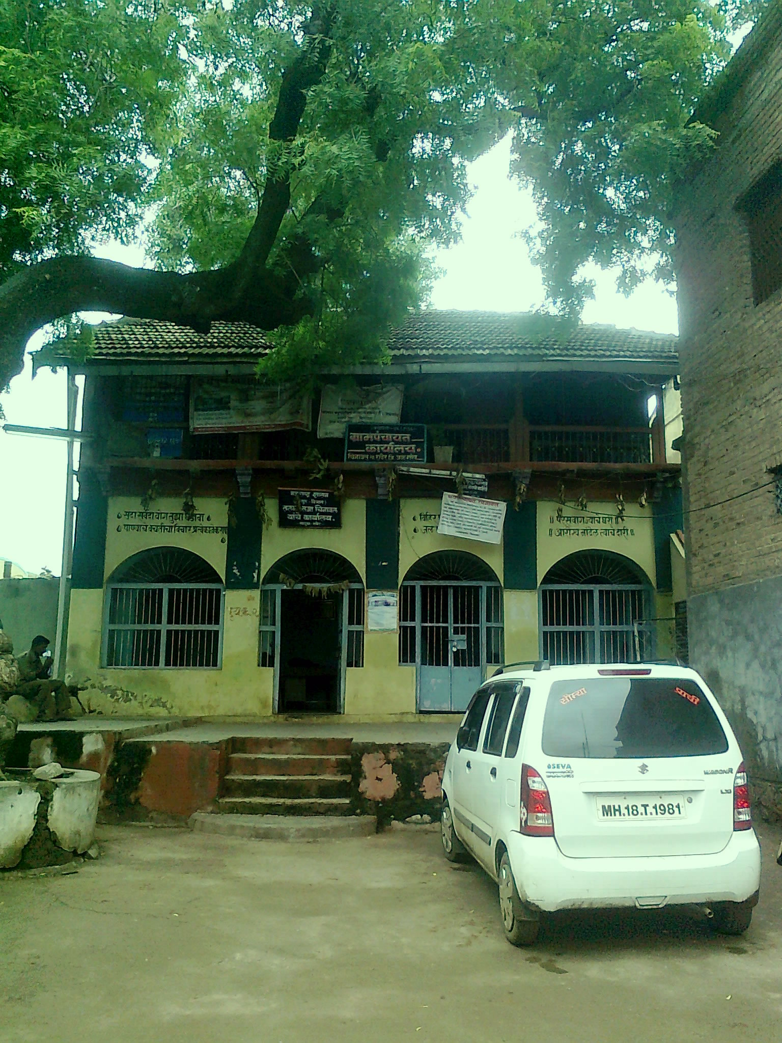 Grampanchayat Office Chinawal